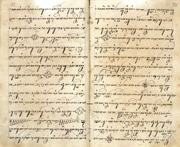 A passage from Babad Pajajaran, the most complete biography of Prabu Siliwangi. Copied in Sumedang in the nineteenth century, Javanese language and script.